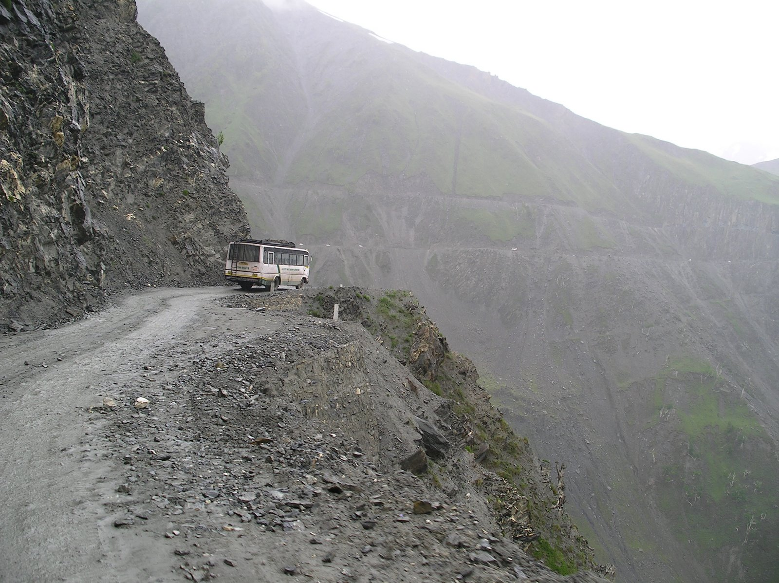 Sringar-Leh Route (Zolila Pass)